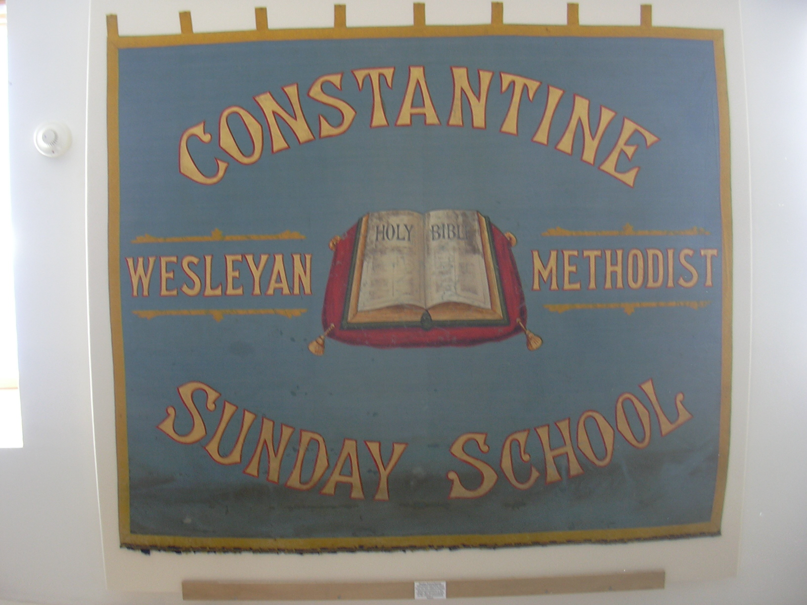 Constantine Heritage Centre: Wesleyan Methodist Sunday School Banner